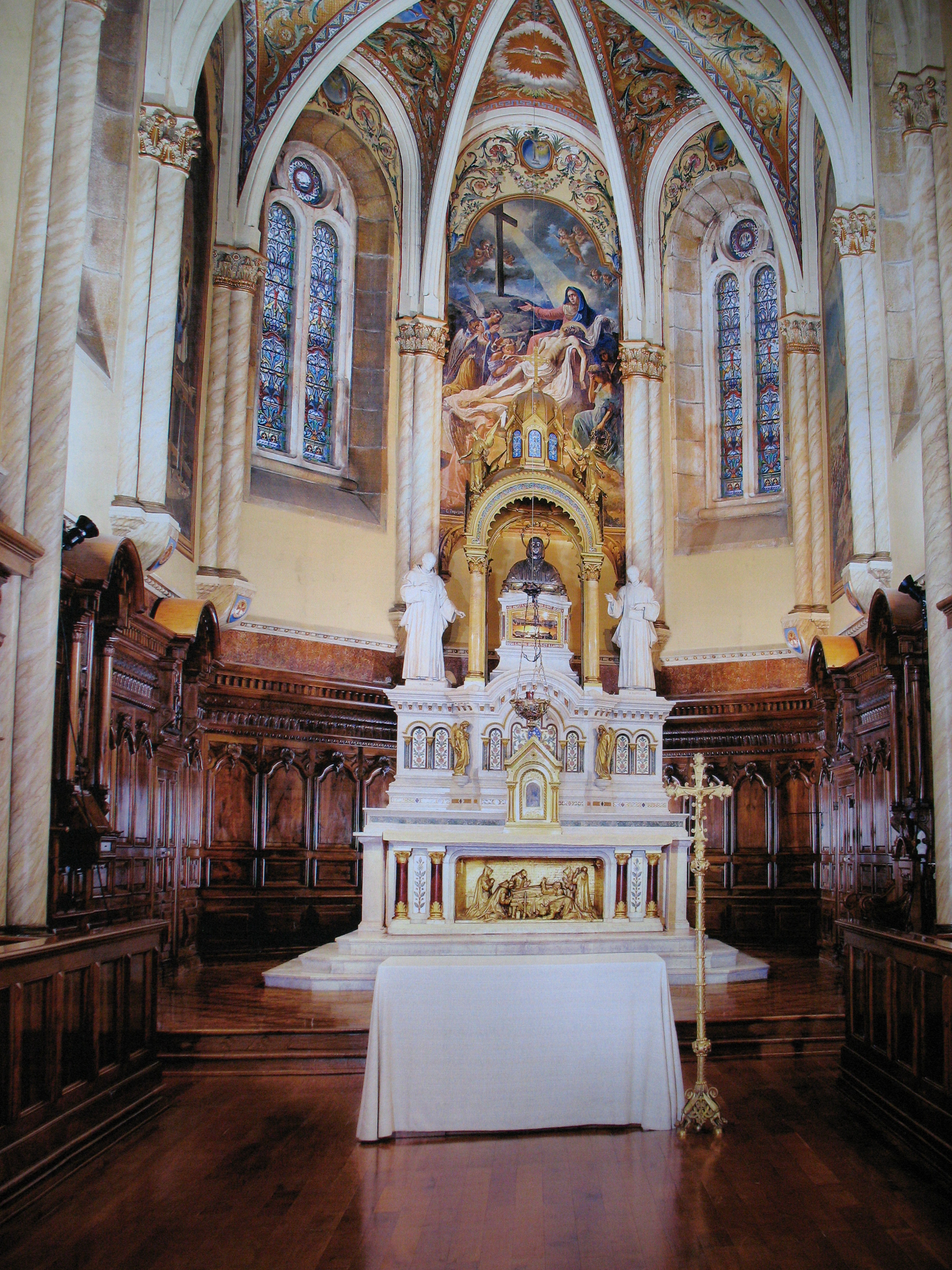 Carthusian of Serra San Bruno, Chapel